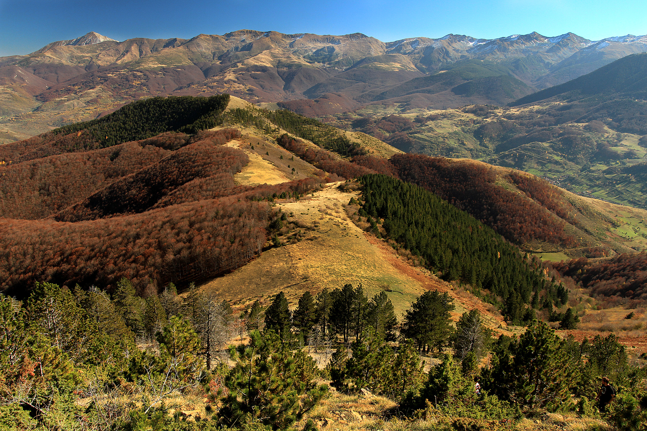 The view of Sharr from the top of Pashallore mountain opposite the Sharr